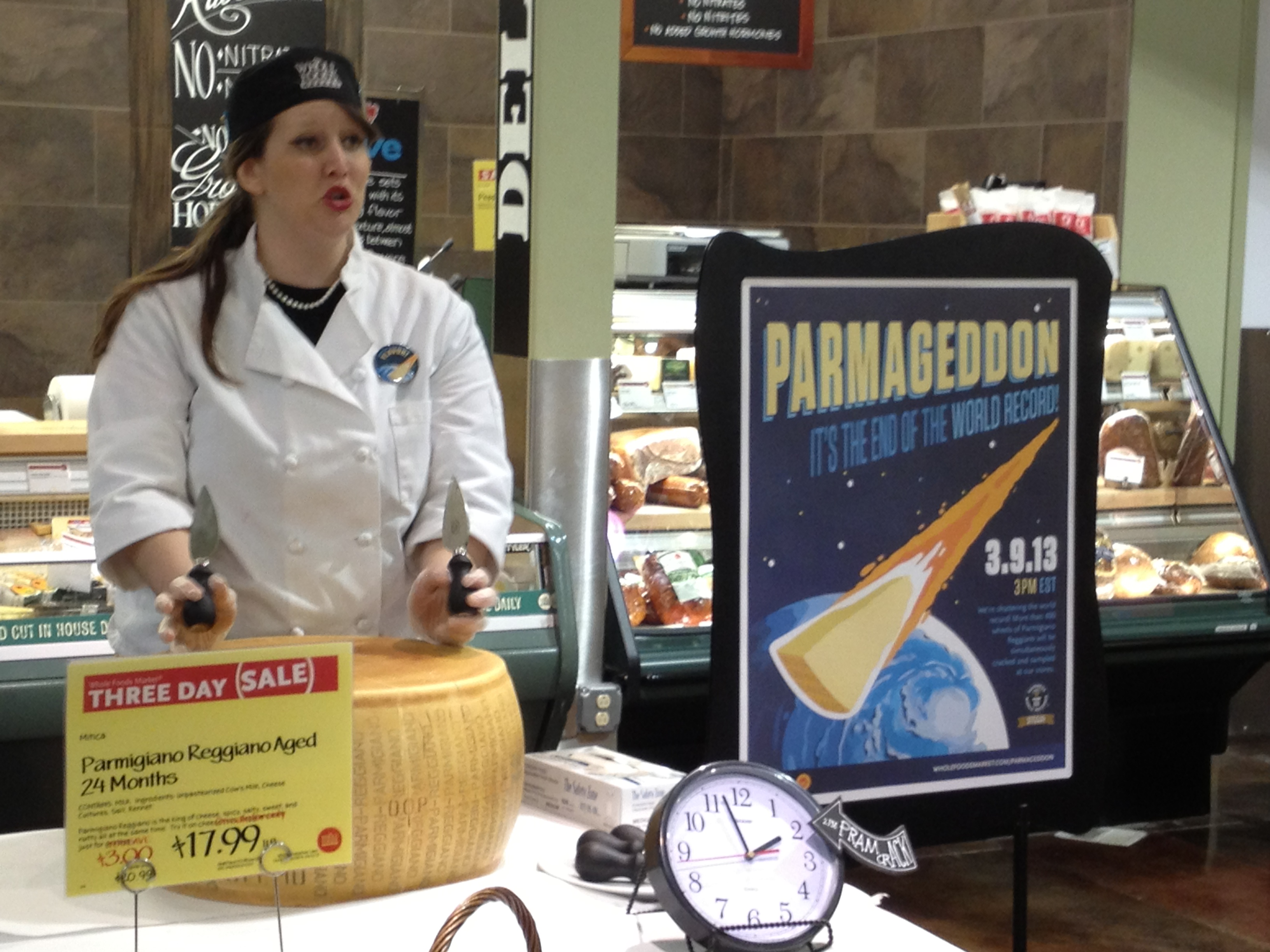 Preparing to break open a wheel of parmesan cheese at Whole Foods Market in Overland Park, Kansas